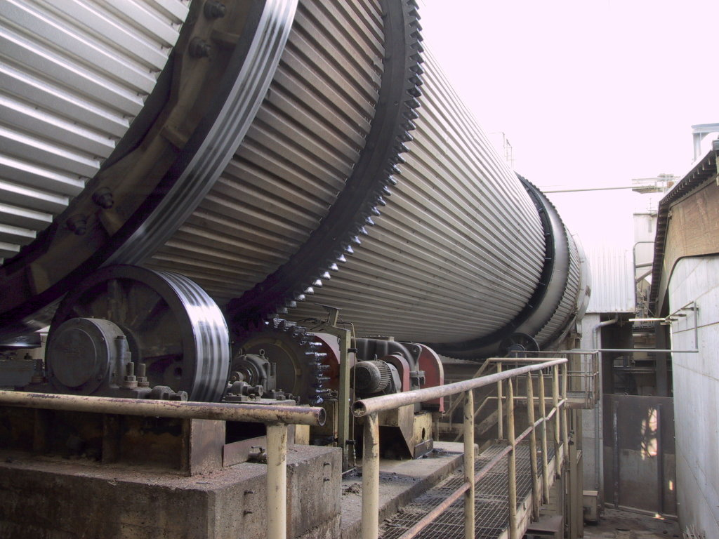 A dryer in a particle board production firm